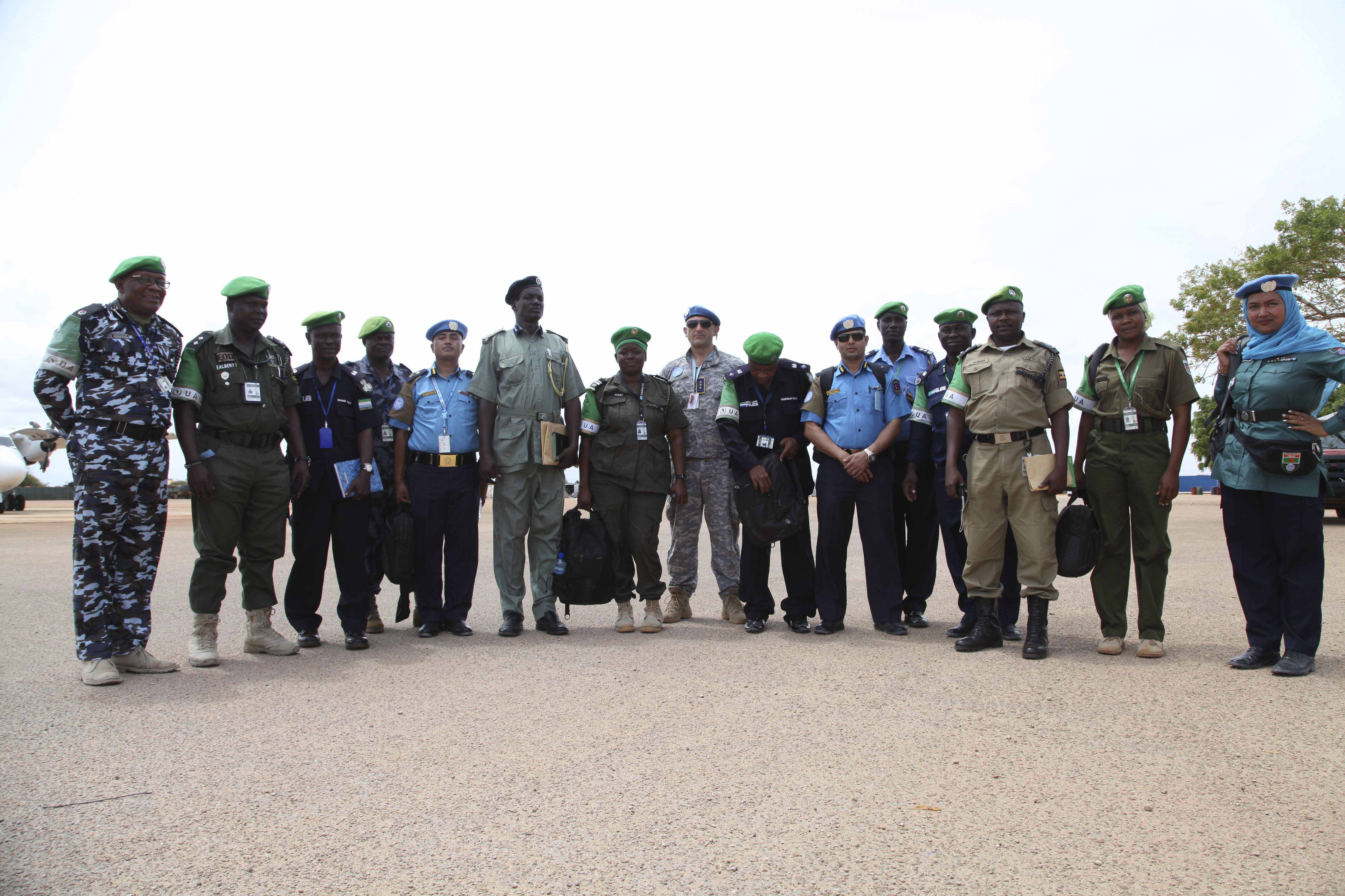 AU/UN Police Officials and Somali Police Officers pose a group photo after the end of a meeting in Kismayu, Somalia on April 27, 2015. AMISOM Photo / Awil Abukar